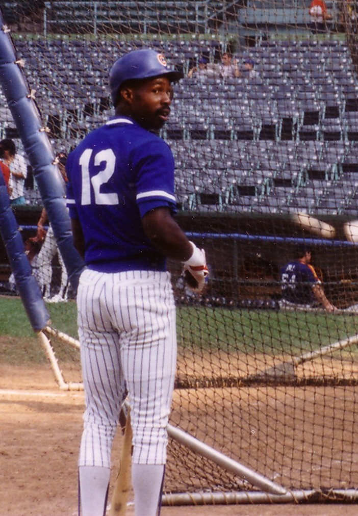 Shawon Dunston at Wrigley Field batting cages in 1988 16:37, 11 November 2007 . . Sacoo . . 702×1,012 (216 KB)